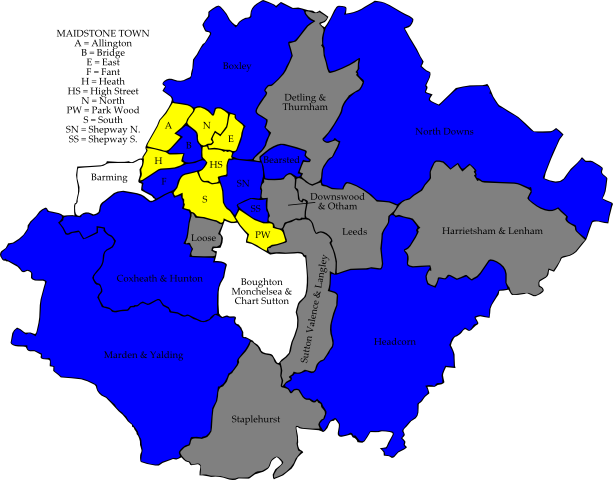 A map of the results of the 2008 Maidstone Council election. Colour legend by wards won: Conservative party Liberal Democrats Independent Wards in grey were not contested in 2008.